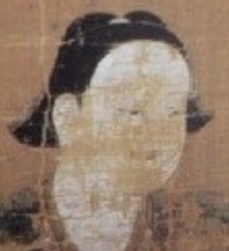 Portrait of Mōri Kōmatsumaru.